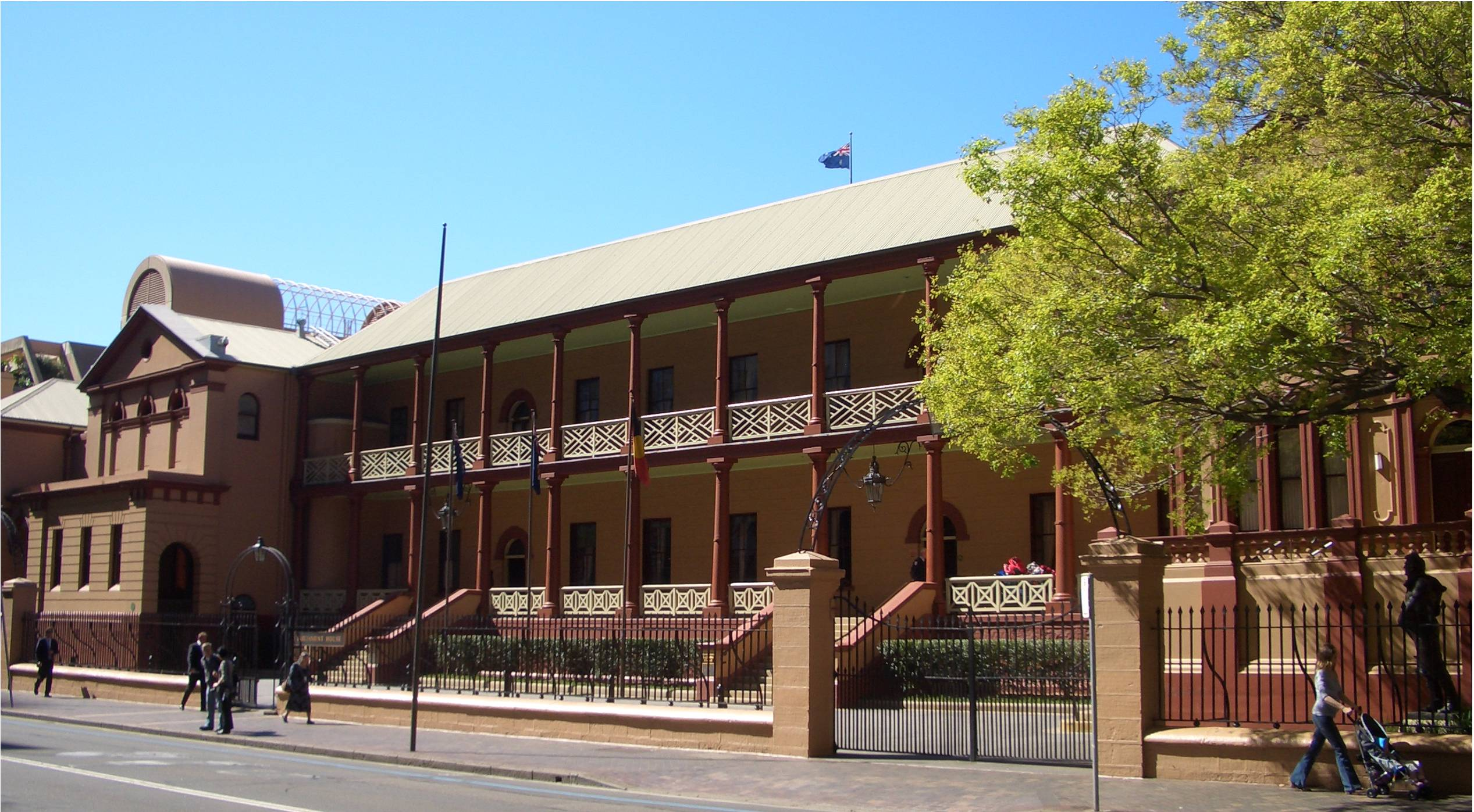 Macquarie Street, Sydney, Australia. I took this photo on the 1st September 2006. J Bar 23:17, 3 September 2006 (UTC)